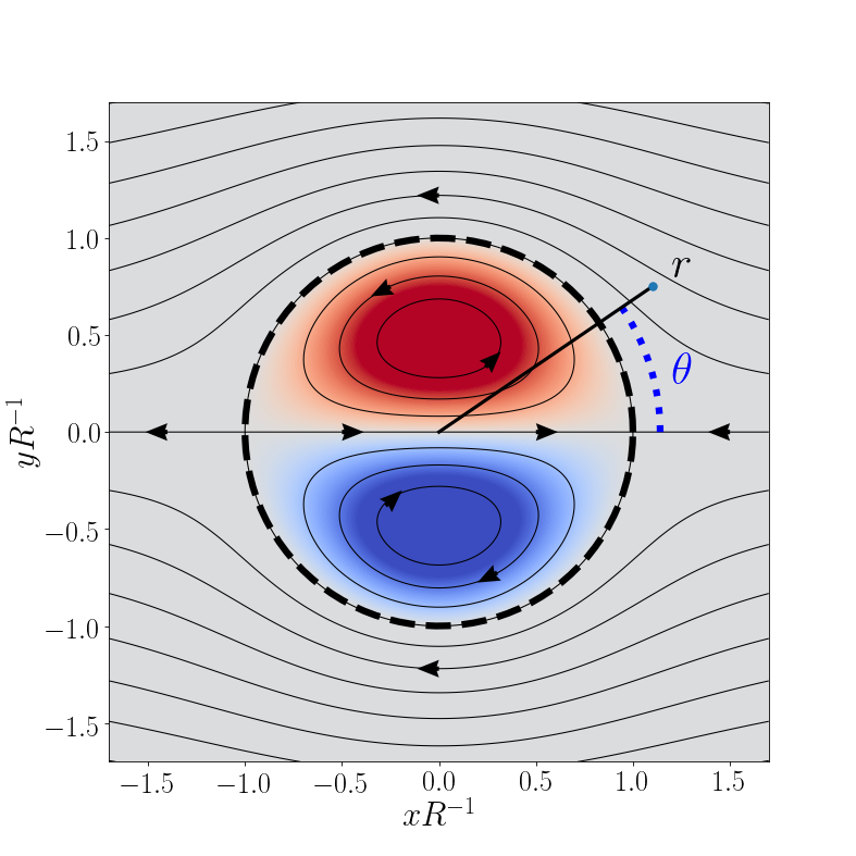 Visual representation of the Lamb-Chaplygin dipole model. Streamlines are drawn with the vorticity field (colour). The bold dashed line represents the separatrix.